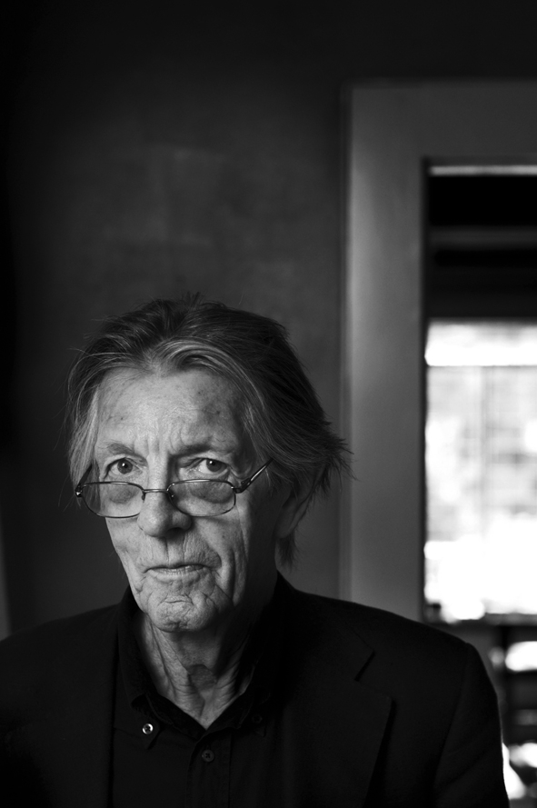 Norwegian author Kjell Askildsen, portrait by Finn Ståle Felberg